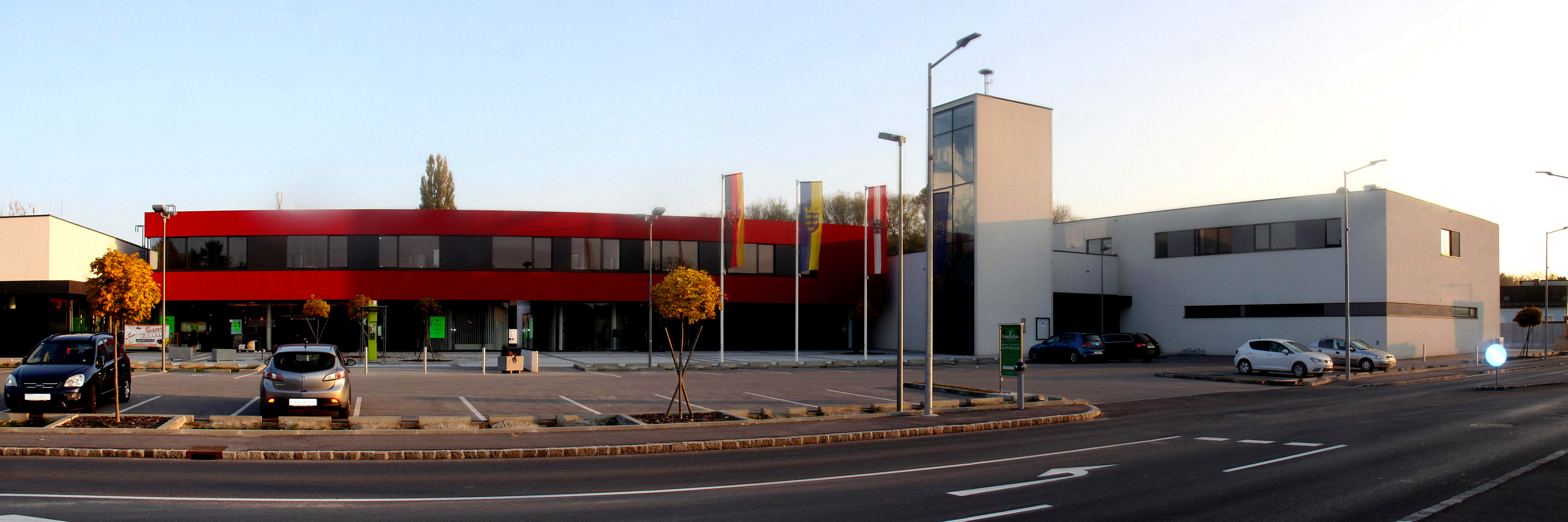 Municipal office, event hall and firehouse of Eggendorf - Lower Austria.